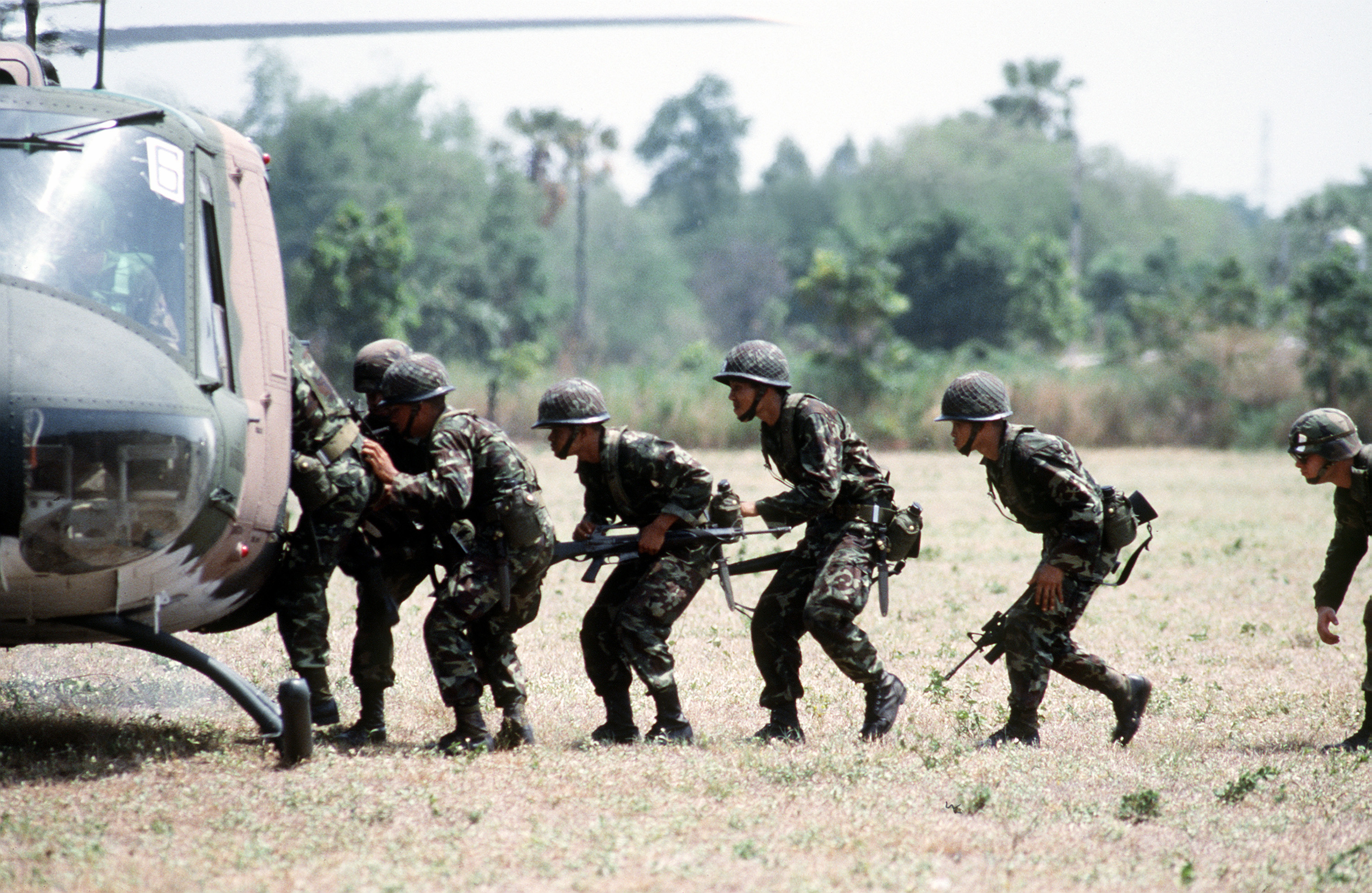 Thai army infantrymen board a Thai Army UH-1 Iroquois helicopter during the joint Thai-U.S. training exercise Cobra Gold '92.